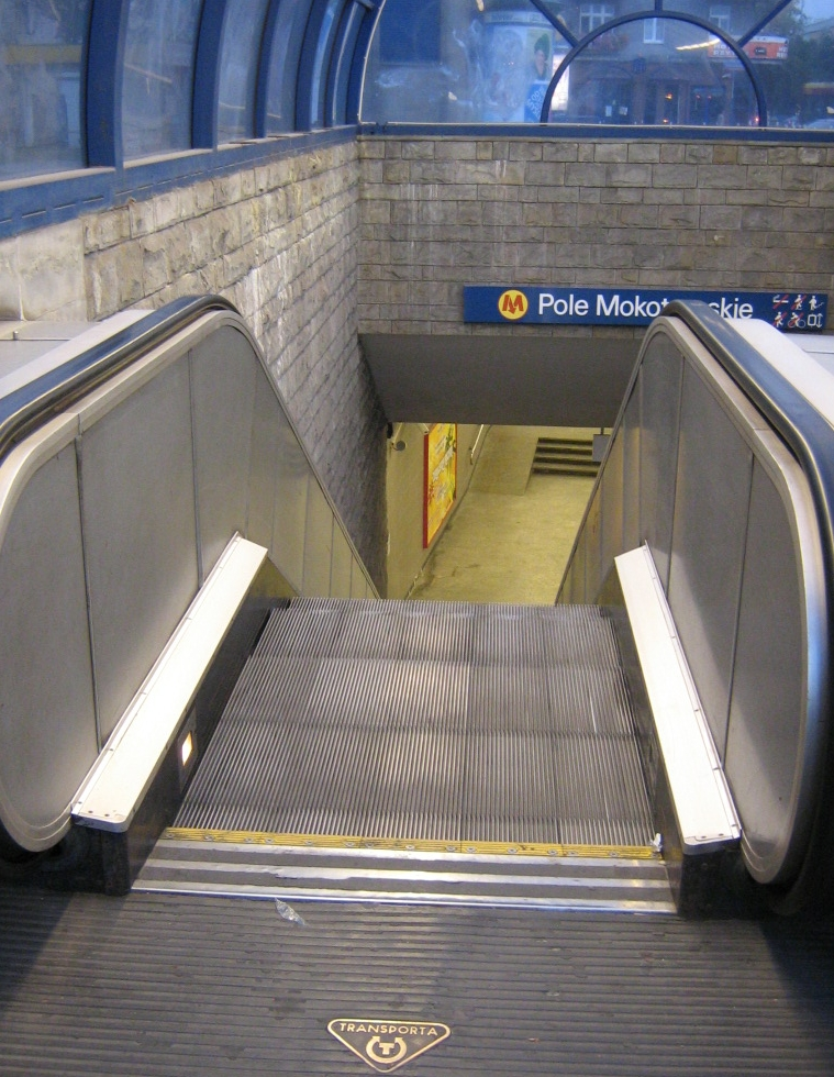 An escalator in Pole Mokotowskie subway station. Warsaw, Poland.